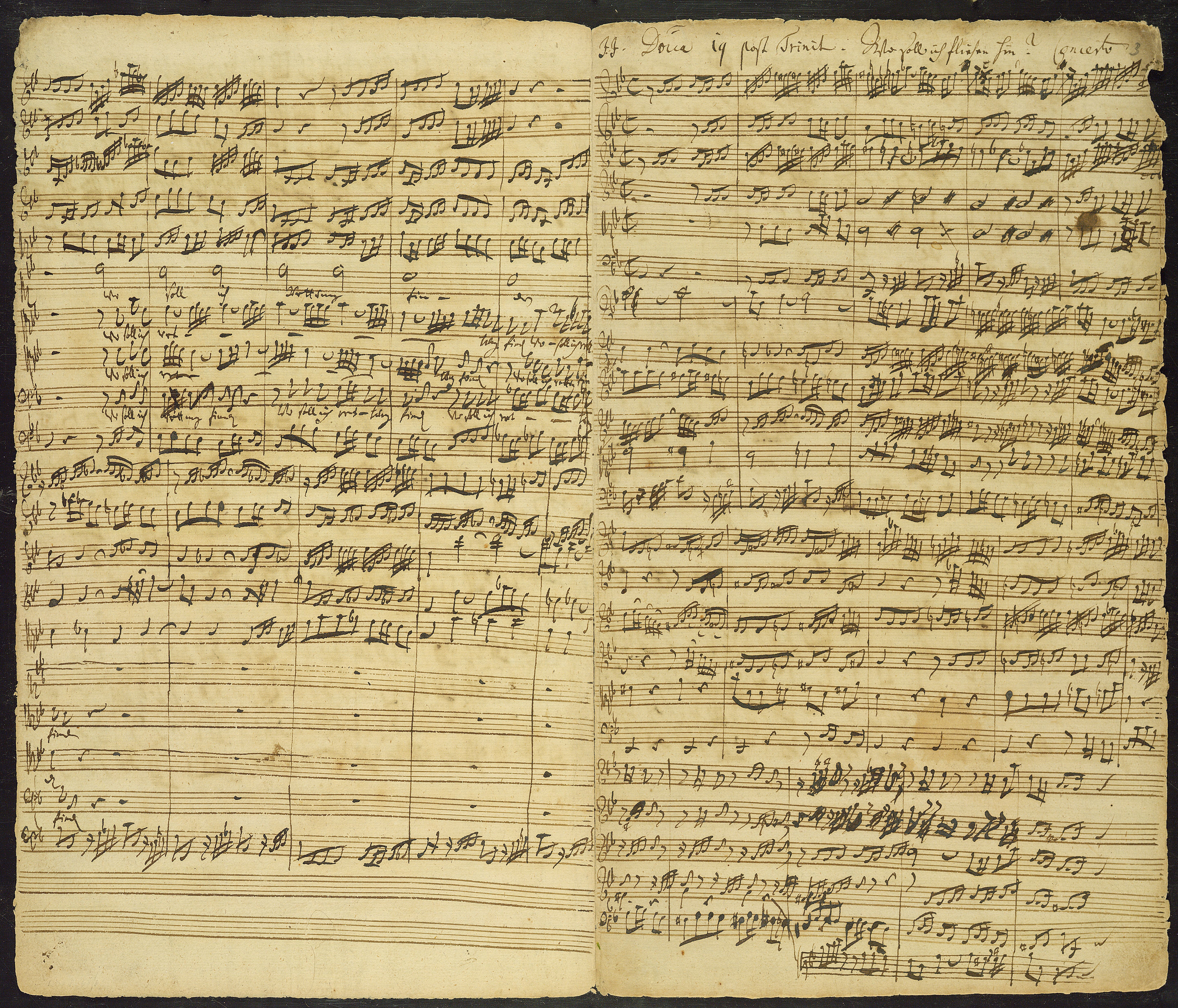 J.S. Bach’s autograph manuscript for Wo soll ich fliehen hin (BWV 5), part of the Zweig collection at the British Library (ref: Zweig MS 1).